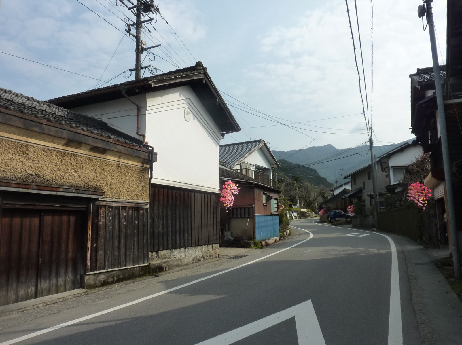 Akizuki, Asakura City, Fukuoka, Japan.